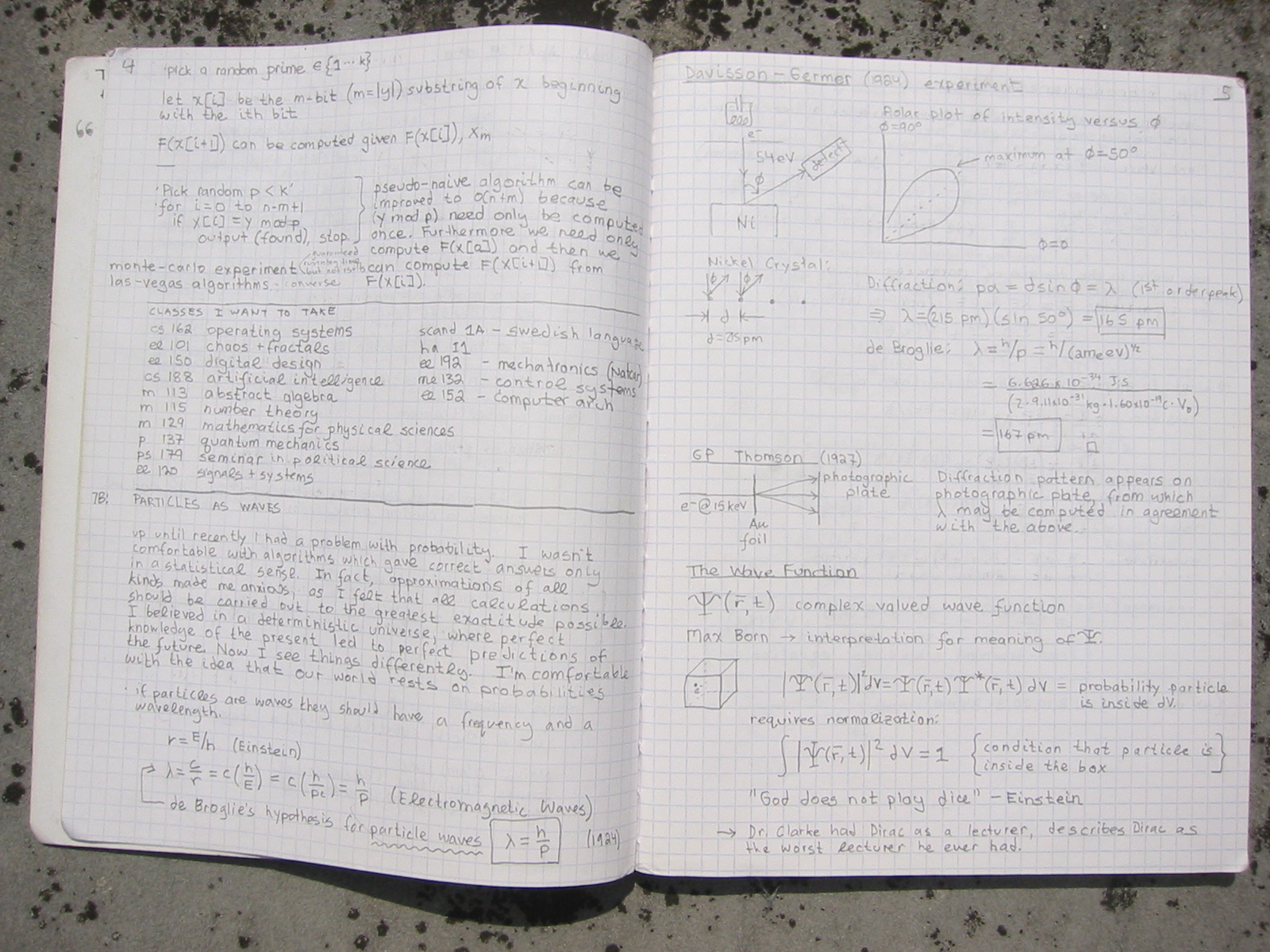 A notebook